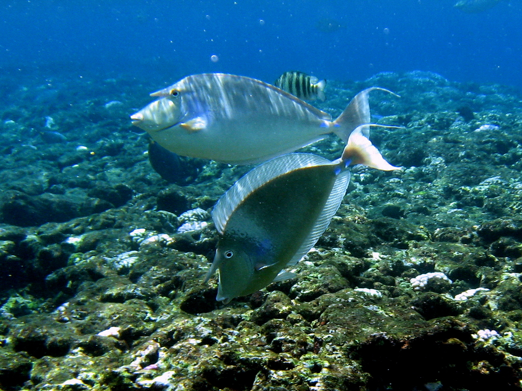 A pair of Bluespine unicornfish (Naso unicornis) found in the shellow water coral reef area of Green Island, where the best coral reef eco-system reserved in TAIWAN.